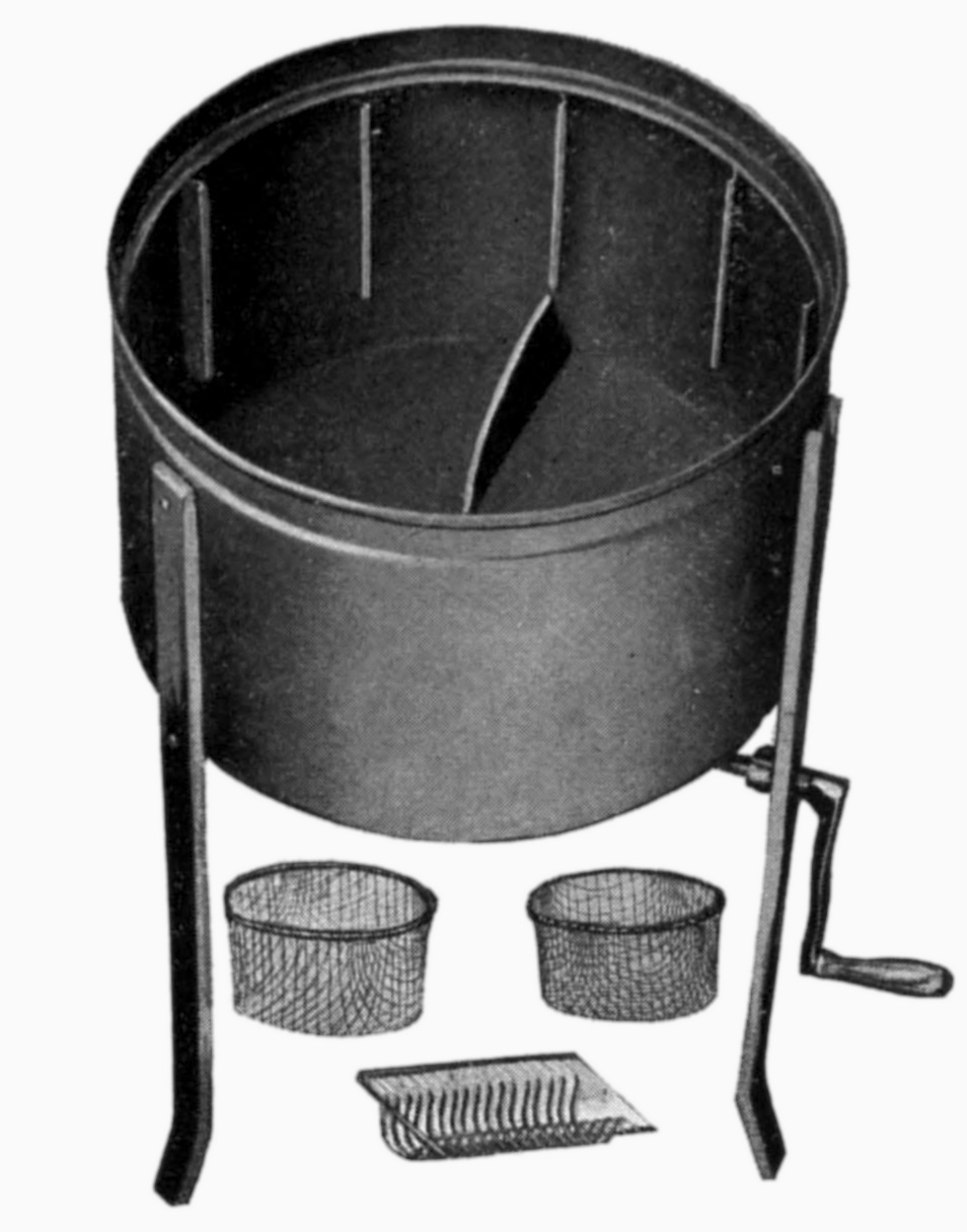 Hand power dishwasher